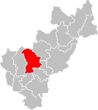 Map showing the municipality of Colon, State of Queretaro, Mexico